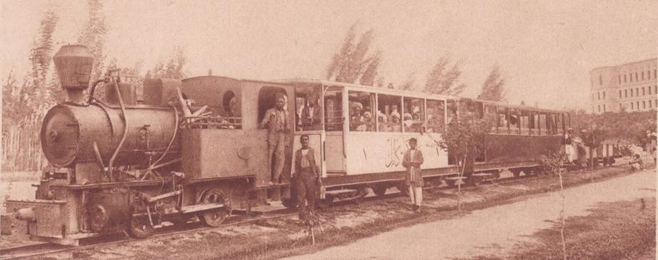 The 7 km long railway between Kabul and Darum-Aman was heavily overcrowded